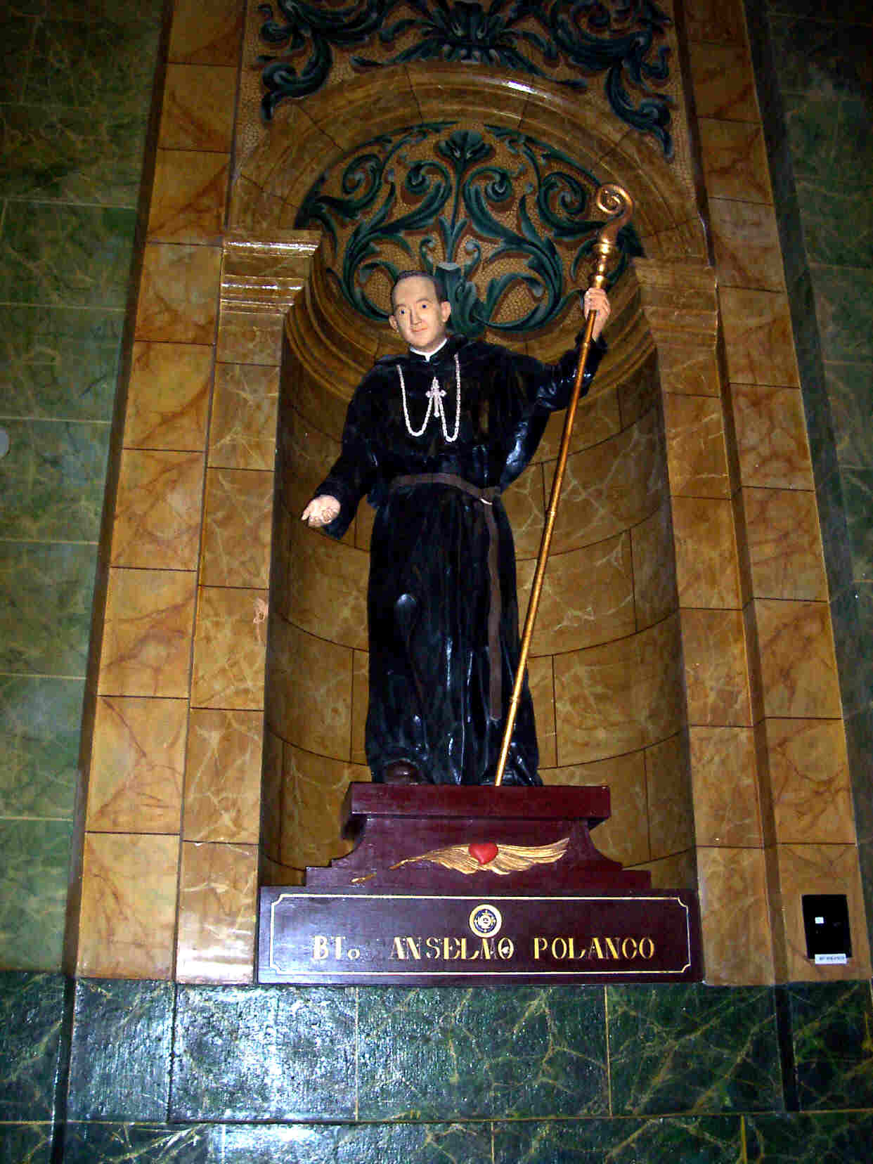 The statue of Blessed Anselmo Polanco Fontecha in the Iglesia de los Filipinos, Valladolid, Spain